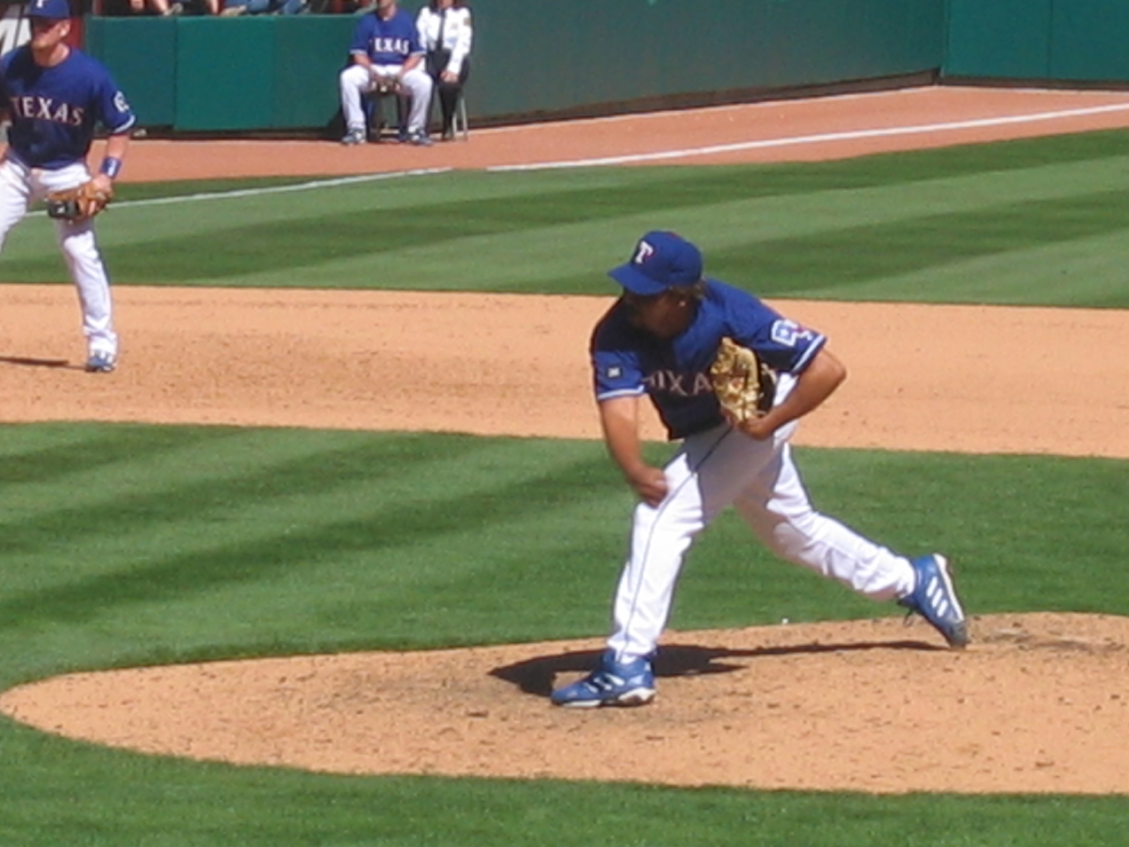 Taken at Ameriquest Field on opening day (4-11-2005).